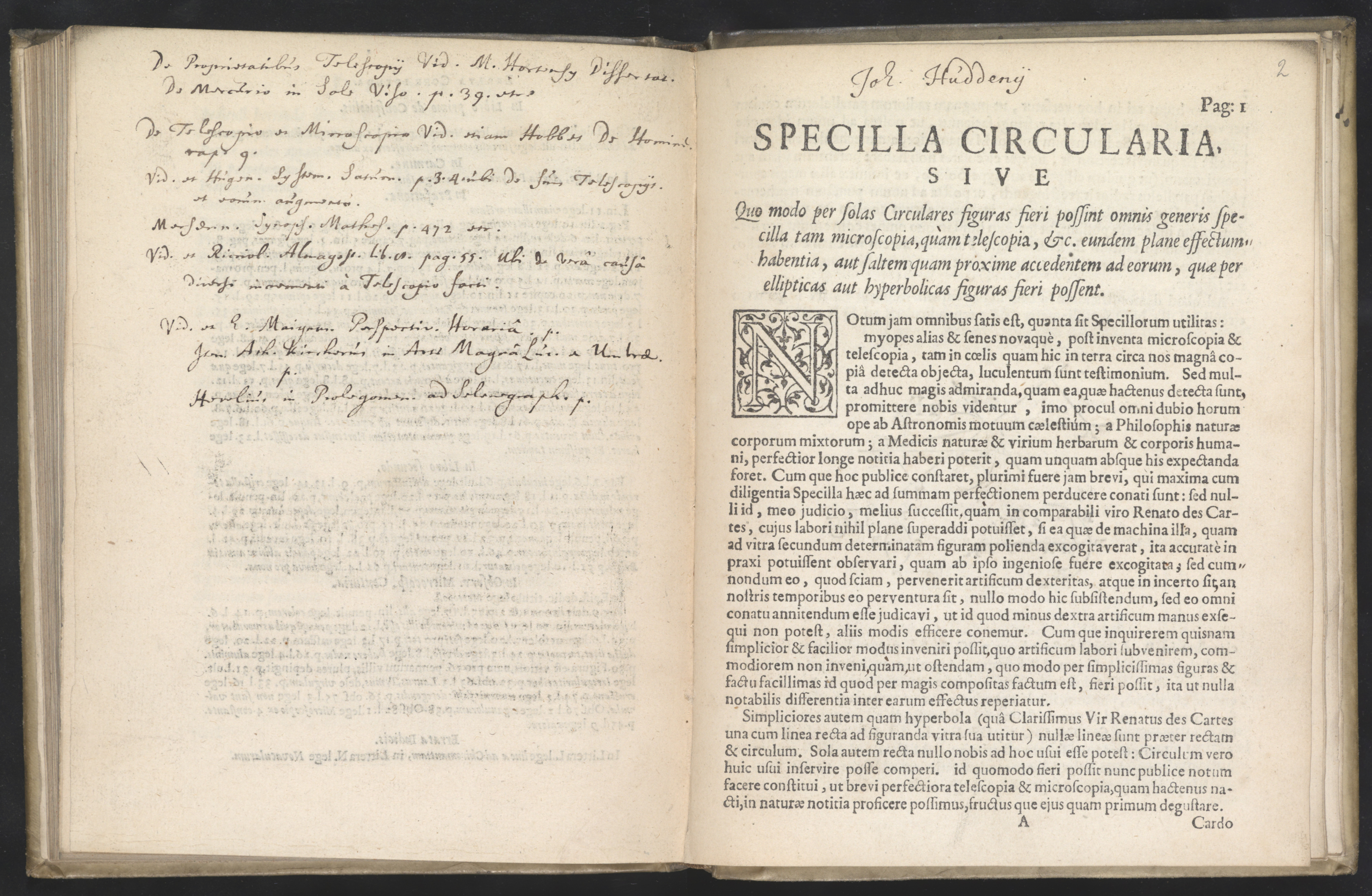 Pages 0 and 1 from Specilla circularia by Johannes Hudde